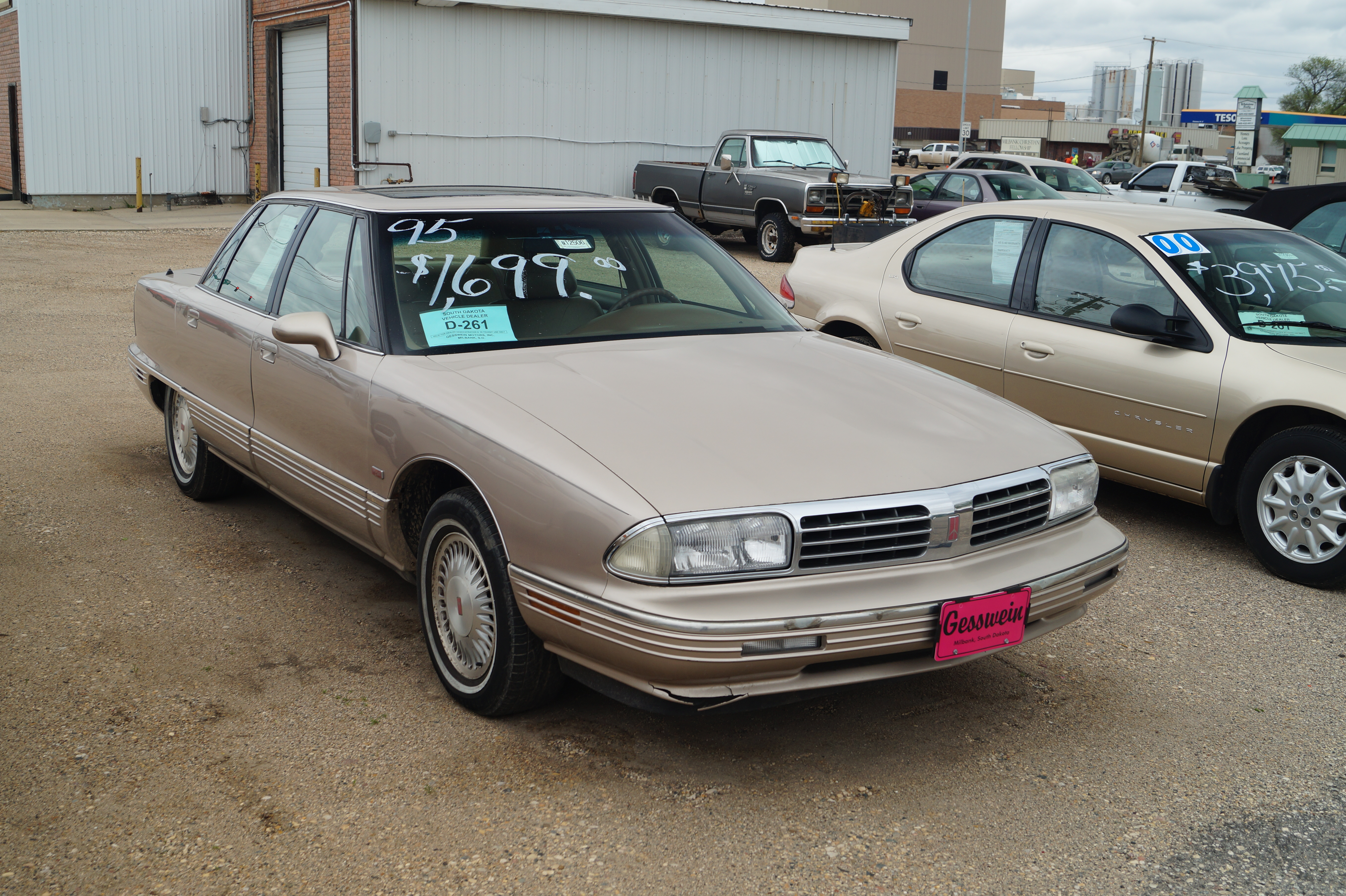 Click here for more car pictures at my Flickr site.